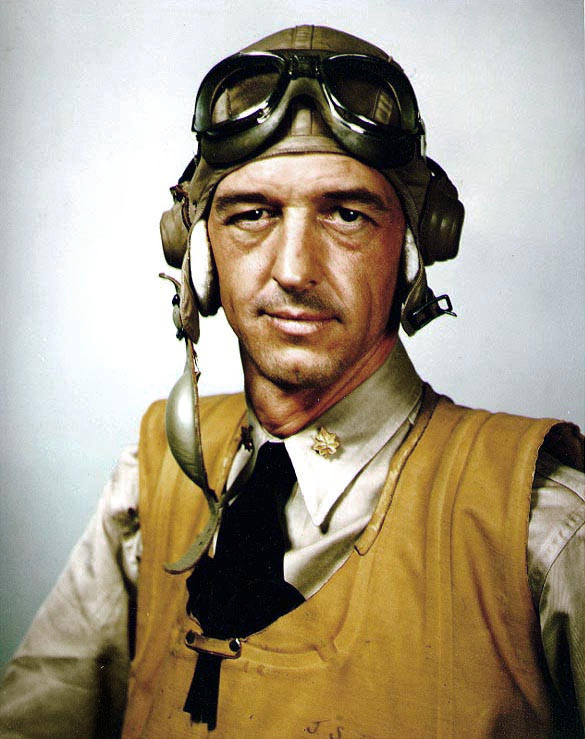 Lieutenant Commander John S. Thach, USN wearing flight helmet, goggles, and inflatable life vest, 1942-43.